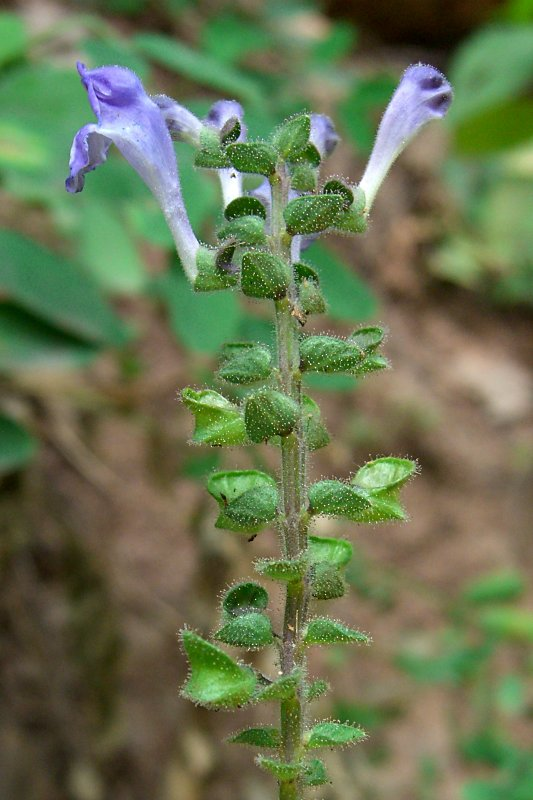 Scientific Name: Scutellaria ovata Hill var. rugosa (Wood) Fern. Common Name: Heartleaf Skullcap Certainty: positive (notes) Location: Central Appalachians; George Washington NF; Shenandoah Mt Date: 20060730